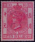 Stamp of Hong Kong, 1876